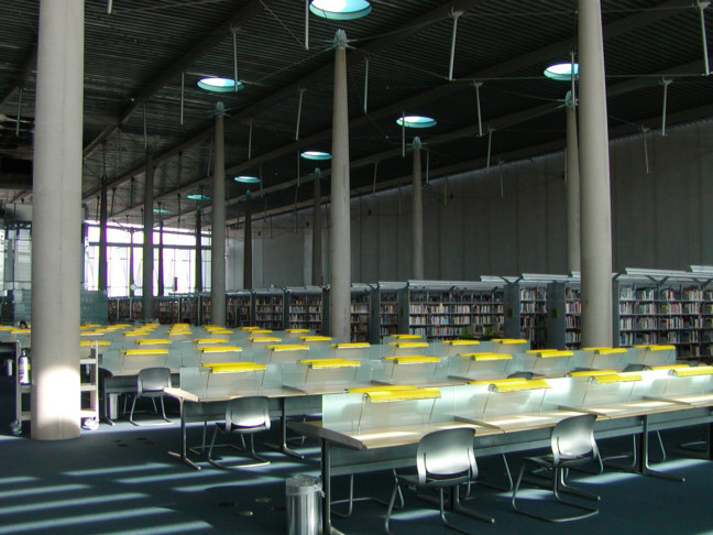 Interior of Burton Barr Public Library in Phoenic, Arizona